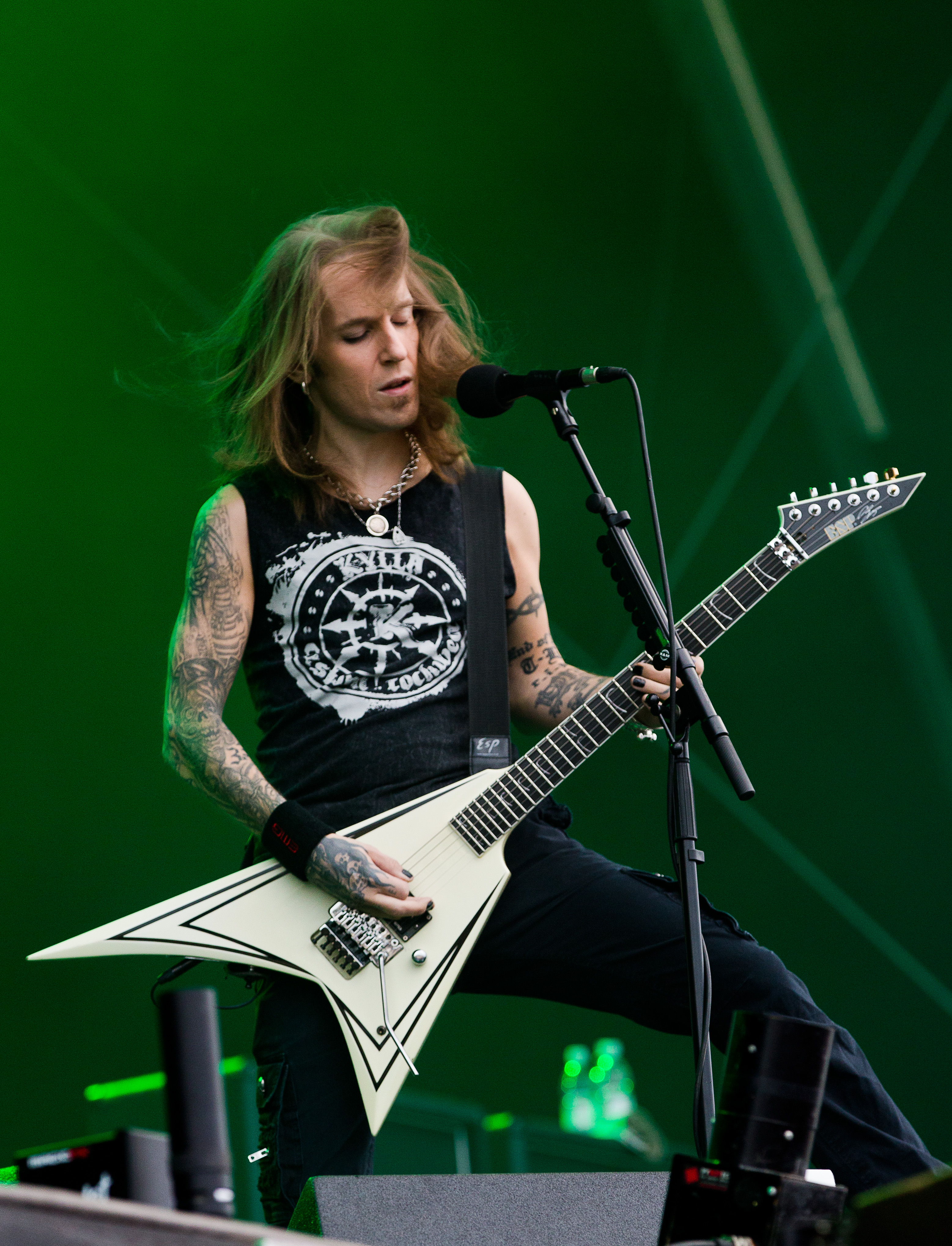 The Finnish melodic death metal band Children of Bodom at the Rockharz Open Air 2016 in Ballenstedt/Germany.